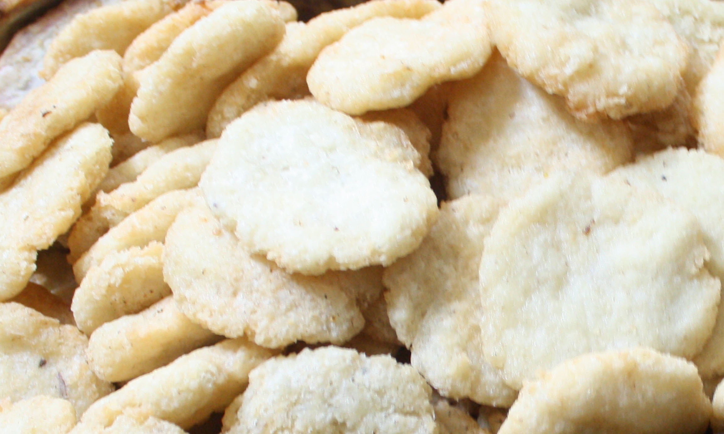 Gandos is made from ground glutinous rice mixed with grated coconut, and the fried.